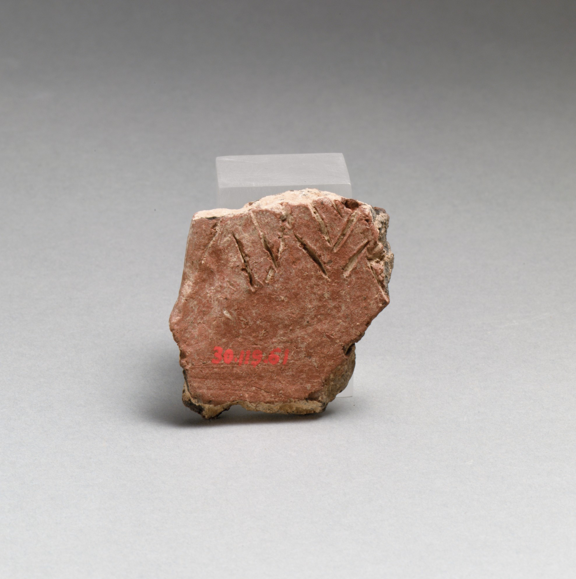 Neolithic, Gonia; Vase fragment; Vases